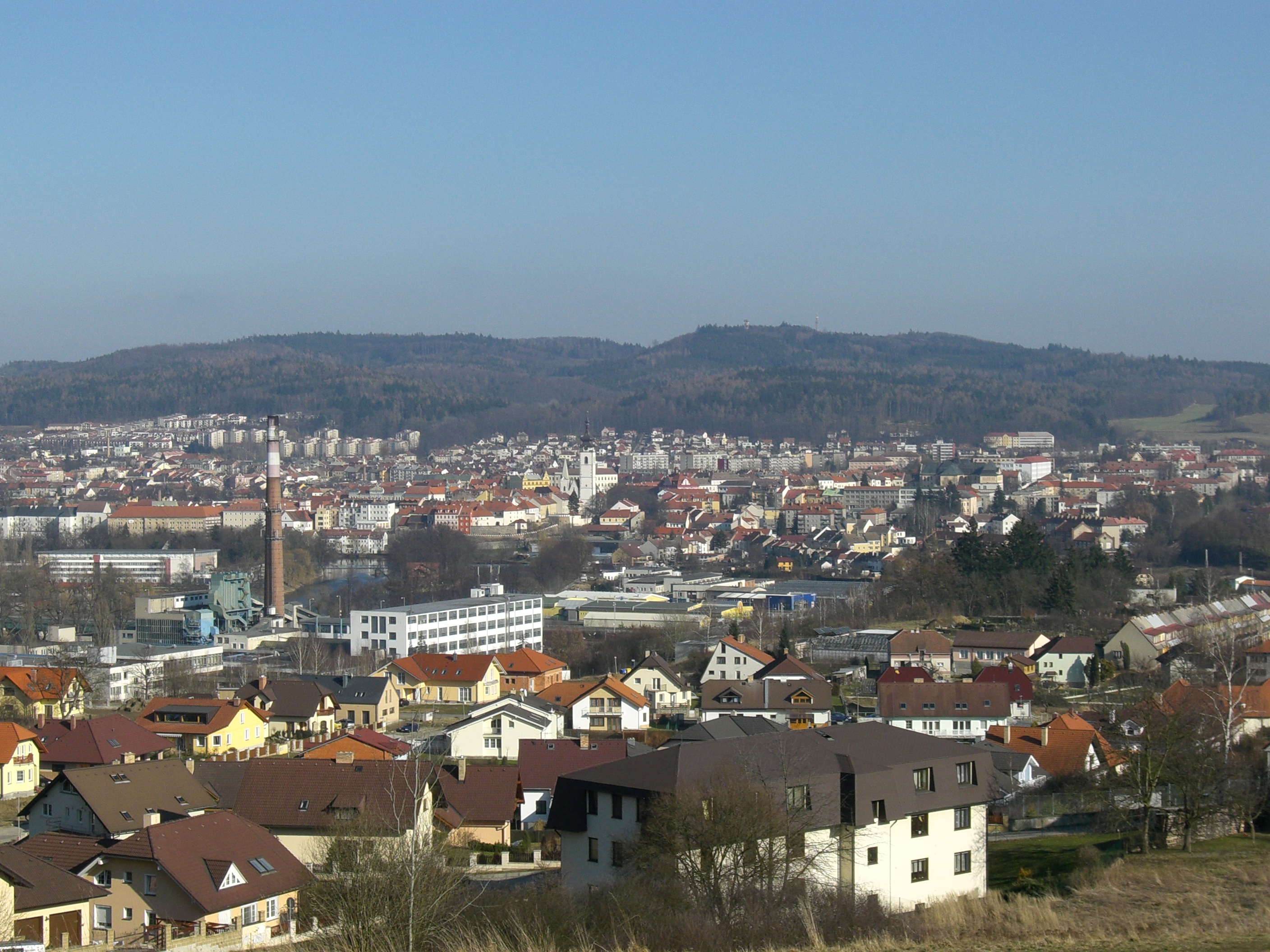 Town of Písek, Czech Republic. A view from WSW, from eastern slopes of the Hradišťský vrch hill (478 m).